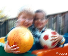 Originally uploaded by DyslexicEditor and then later by Liftarn. Modified by me, X-Fi6, to more accurately depict Myopia, as I myself have it (20/200 vision in my right eye). Copyright: Public domain, permission granted by the US government Source: [1] Credit of NIH National Eye Institute requested. Part of a set of eye pictures: File:Human eyesight two children and ball normal vision.jpg File:Human eyesight two children and ball with age-related macular degeneration.jpg File:Human eyesight two children and ball with cataract.jpg File:Human eyesight two children and ball with diabetic retinopathy.jpg File:Human eyesight two children and ball with glaucoma.jpg File:Human_eyesight two_children and ball with retinitis pigmentosa or tunnel vision.png File:Human eyesight two children and ball with myopia short-sightedness.png Other NEI NIH images Color image of Image:Human eyesight two children and ball with myopia short-sightedness.png but upload was broken and it could not upload a new version. In fact, not only was it broken for me, but it was also broken for the previous version.